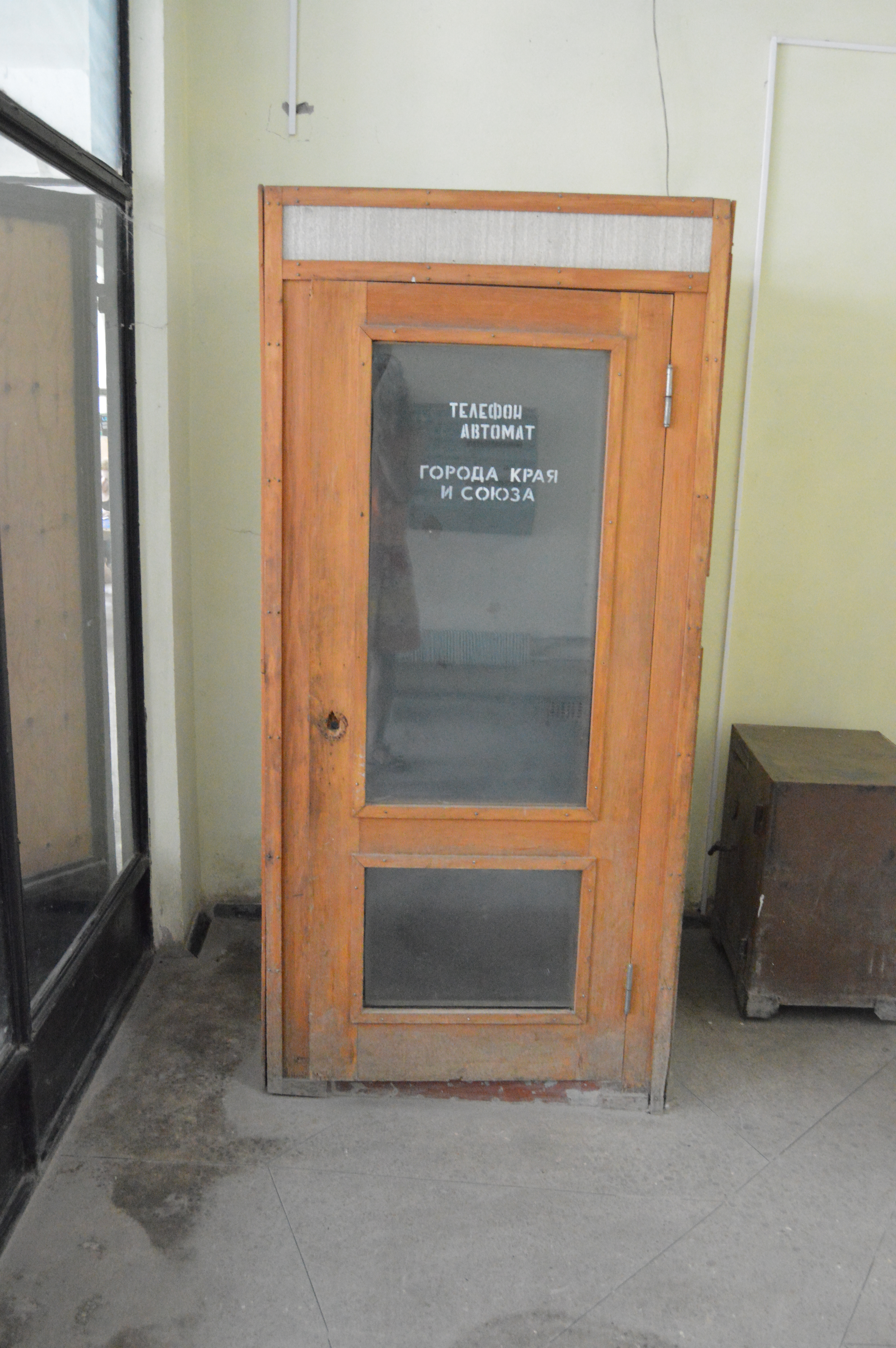 Old Soviet telephone booth in Anapa Post Office 353451.